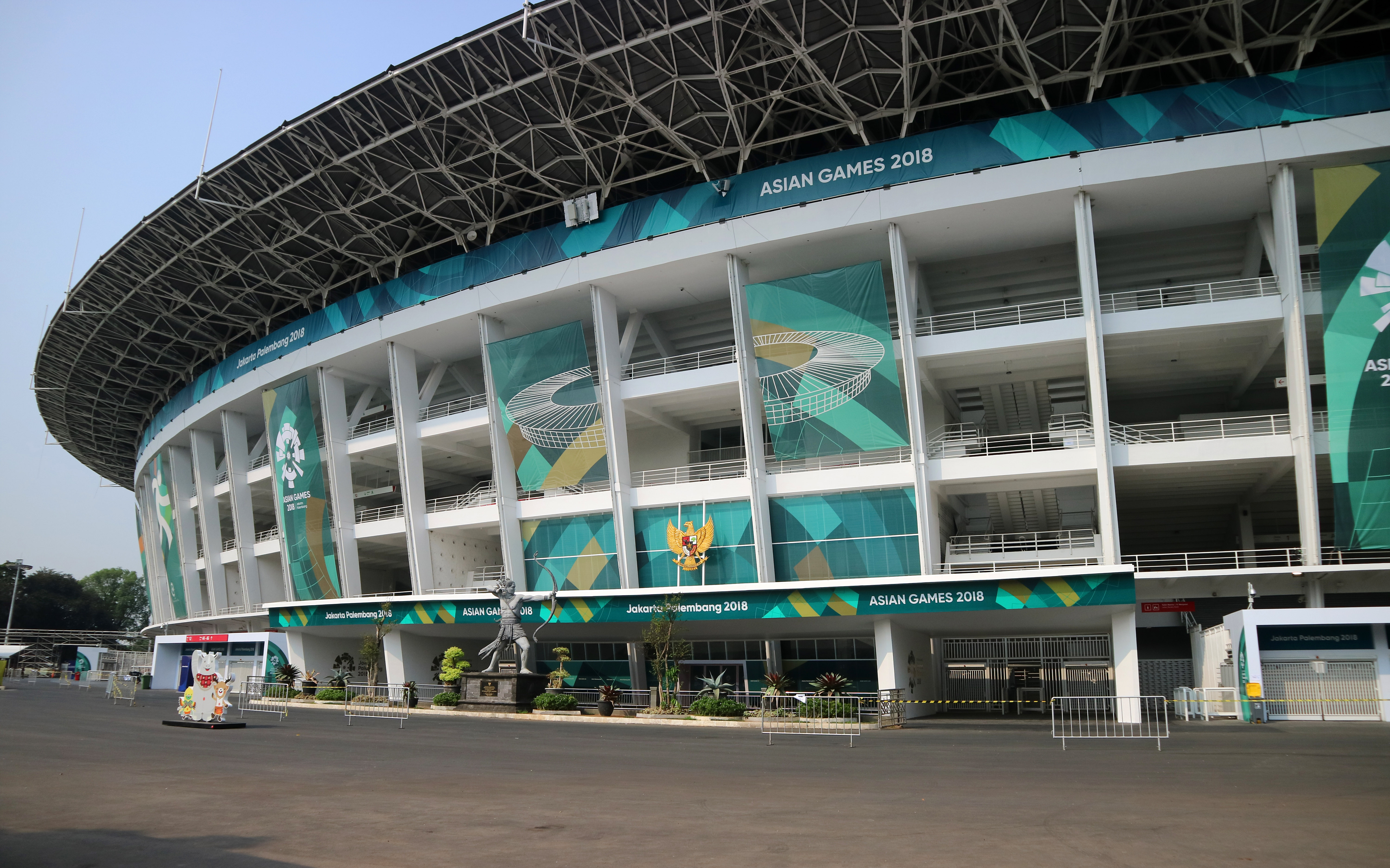 Gelora Bung Karno (GBK) Stadium in GBK sport complex, Senayan, Central Jakarta, during Asian Games 2018.